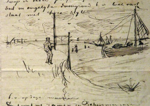 A sketch by Vincent Van Gogh illustrating how he expected to use the perspective frame he had ordered